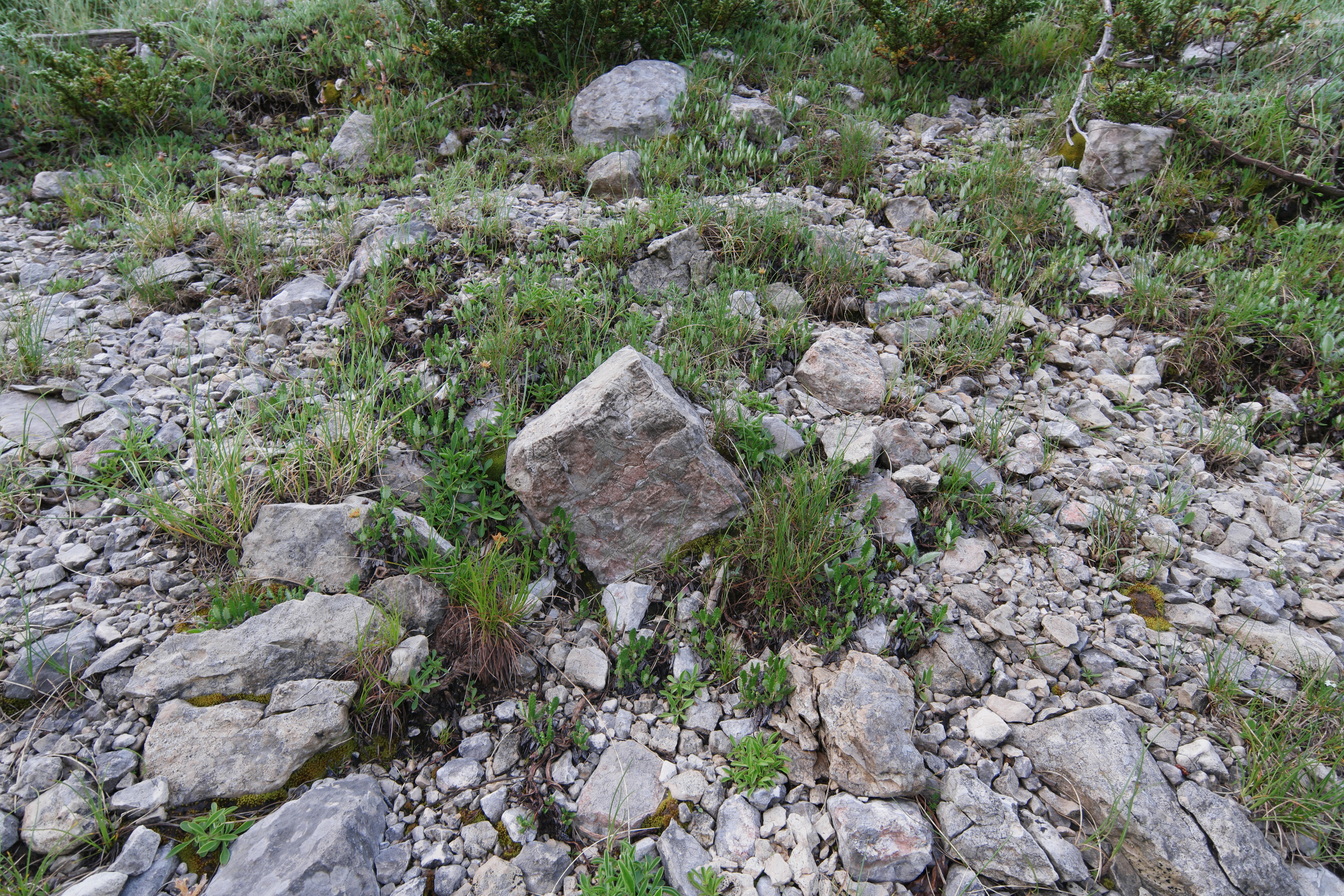 Periglacial calcareous patterned ground with Mountain Avens (Dryas octopetala) Mt Orjen subadriatic Dinarids